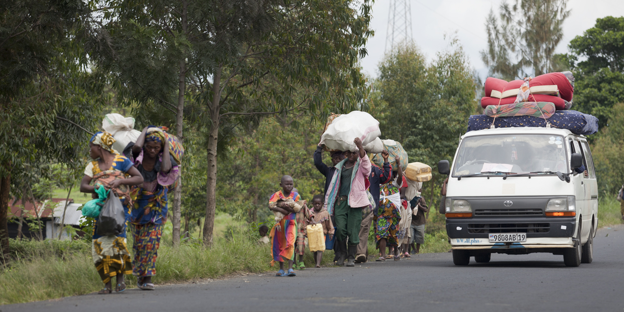 Population fleeing their villages due to fighting between FARDC and rebels groups, Sake North Kivu the 30th of April 2012. © MONUSCO/Sylvain Liechti